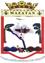 Coat of arms of Mazatán, Chiapas